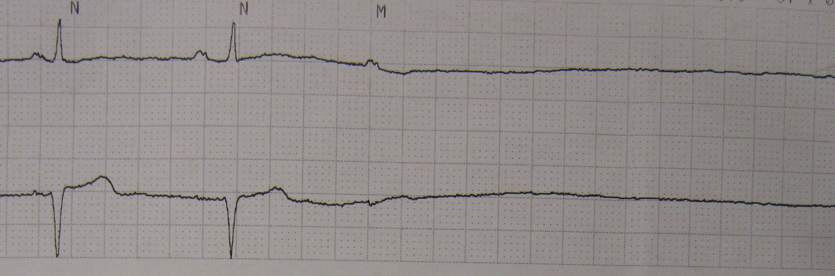 A couple beats of normal sinus followed by asystole.